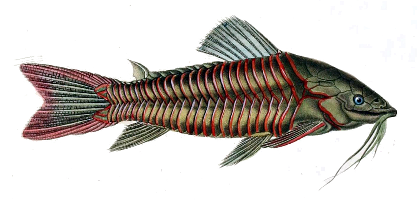 « Callichthis laevigatus » = Hoplosternum littorale